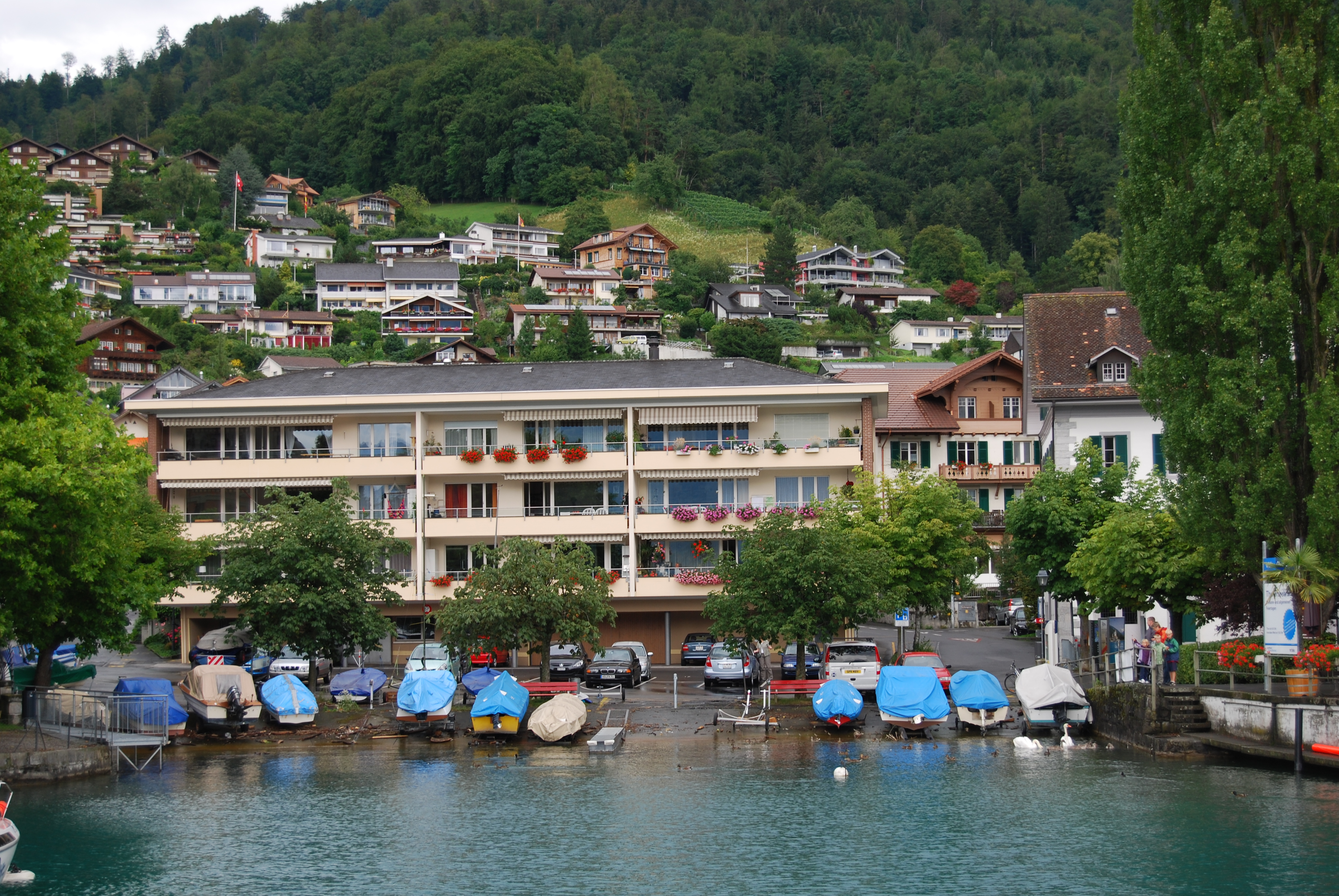 Oberhofen am Thunersee, canton of Bern, SwitzerlandEsperanto: Oberhofen ĉe Lago de Thun, Kantono Berno, Svislando